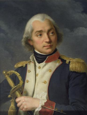 french general Jean-Charles Pichegru